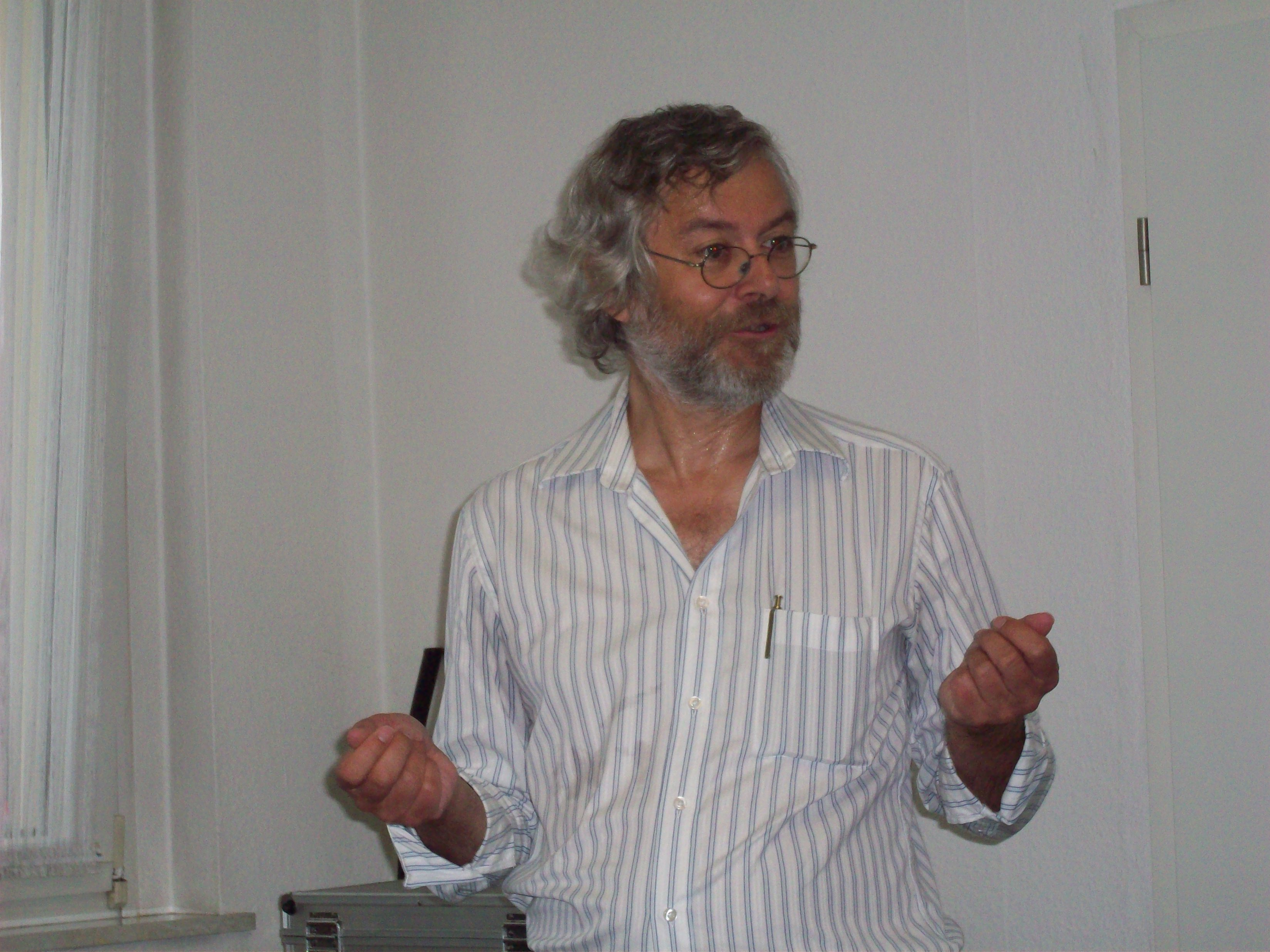 Harald Schicke, president of the Esperanto Association Internacia Naturkuraca Asocio